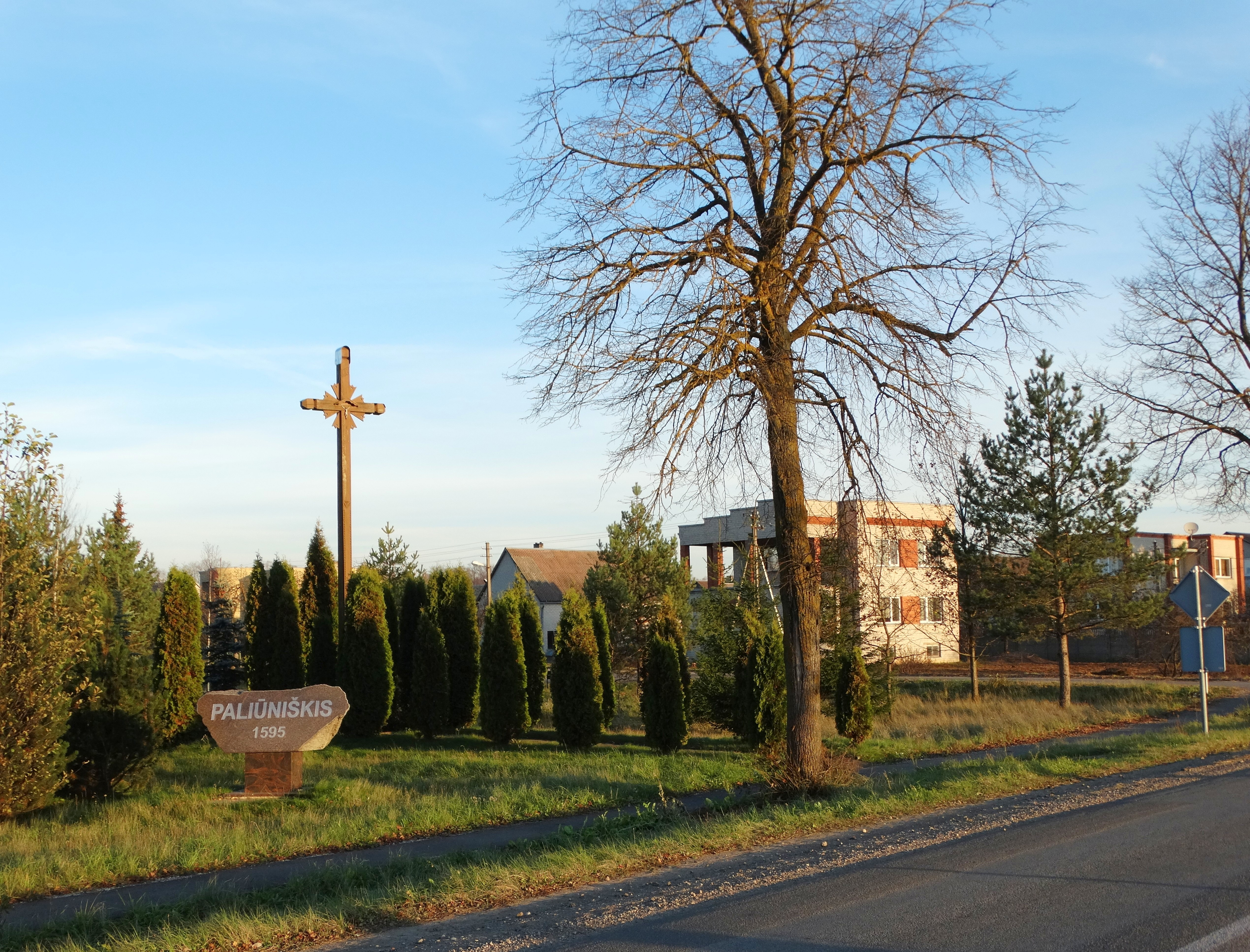 Paliūniškis, Panevėžys district, Lithuania